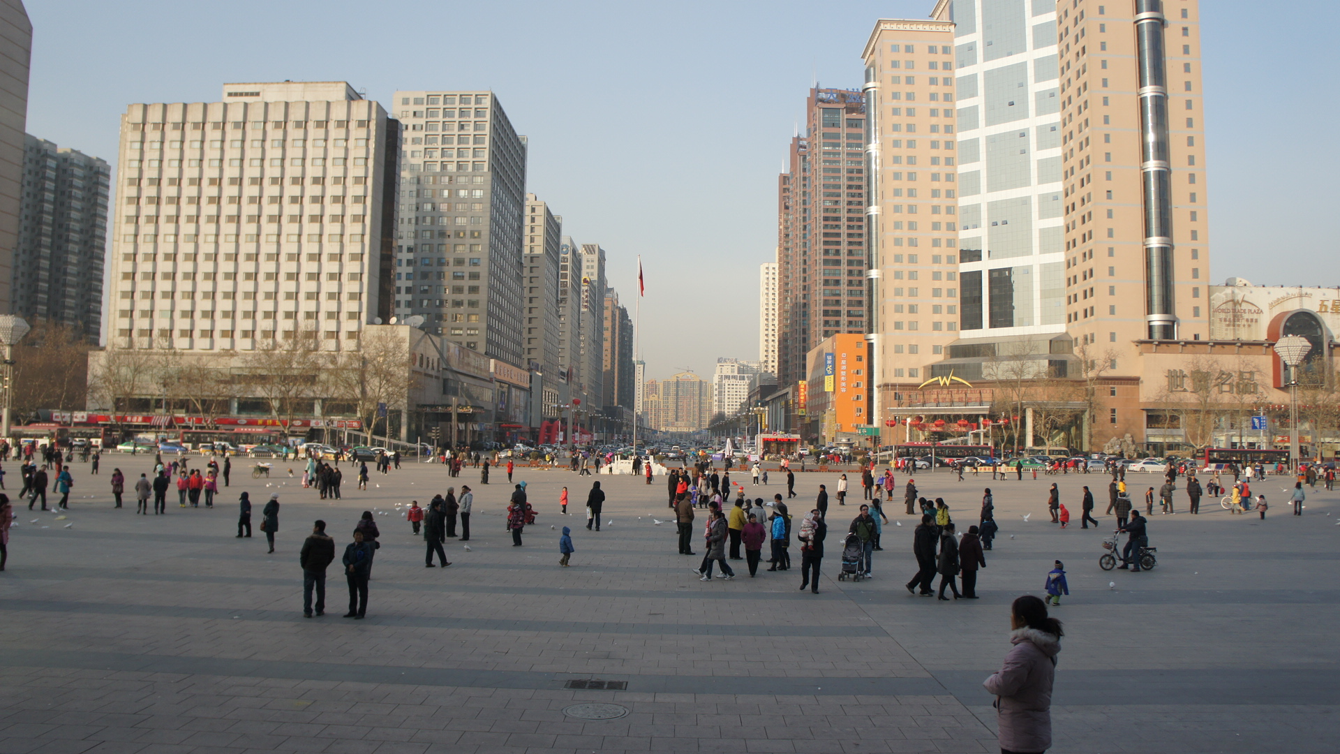 Shijiazhuang Cultural Square.